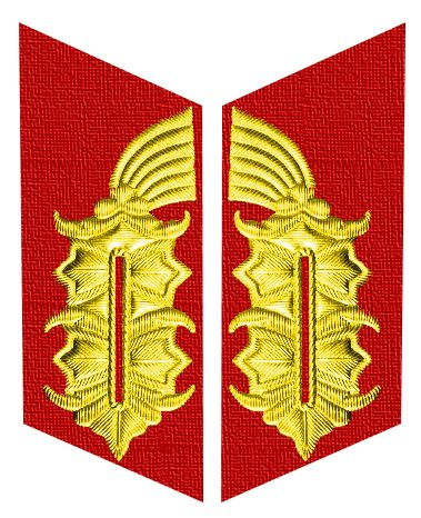 Military rang insignia of the German Democratic Republic until 1990, here: Arabesques to all general ranks Weapon colour: scarlet to – National People´s Army, Land forces: Major general up to Army general GDR Civil defence: Major general up to Colonel general Ministry of State Security of the GDR: Major general up to Army general.